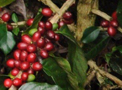 Coffee Plant in Kepahiang.